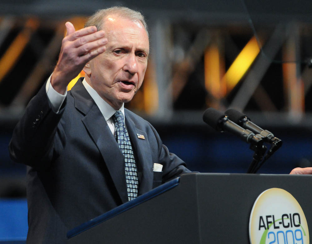 Arlen Specter AFL CIO 2009